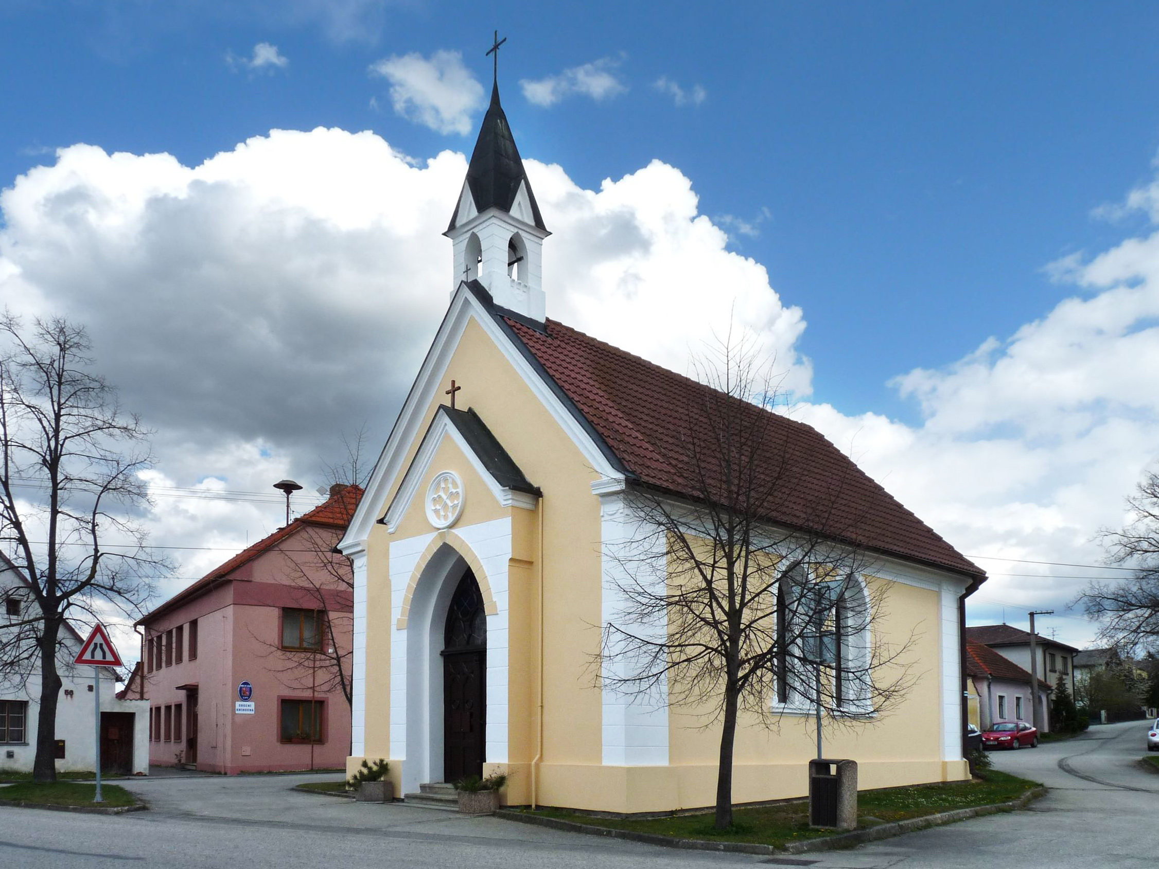 Chapel in the village of Lipí, České Budějovice District, Czech Republic.